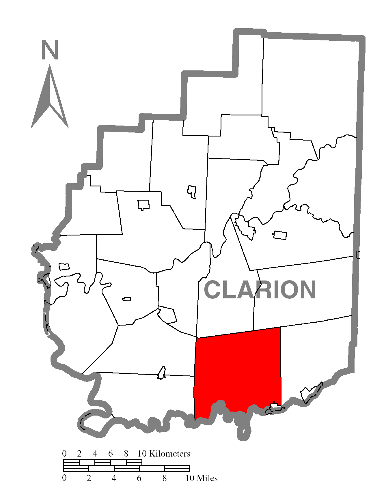 A map of Clarion County showing Porter Township, Pennsylvania (alternate) highlighted on the map.